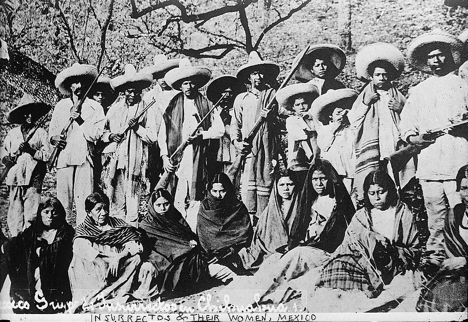 Bain News Service,, publisher. Insurrectos & their women, Mexico [between 1910 and 1915] 1 negative : glass ; 5 x 7 in. or smaller. Notes: Title from unverified data provided by the Bain News Service on the negatives or caption cards. Forms part of: George Grantham Bain Collection (Library of Congress). Subjects: Mexico Format: Glass negatives. Repository: Library of Congress, Prints and Photographs Division, Washington, D.C. 20540 USA, General information about the Bain Collection is available at Persistent URL: Call Number: LC-B2- 2223-16